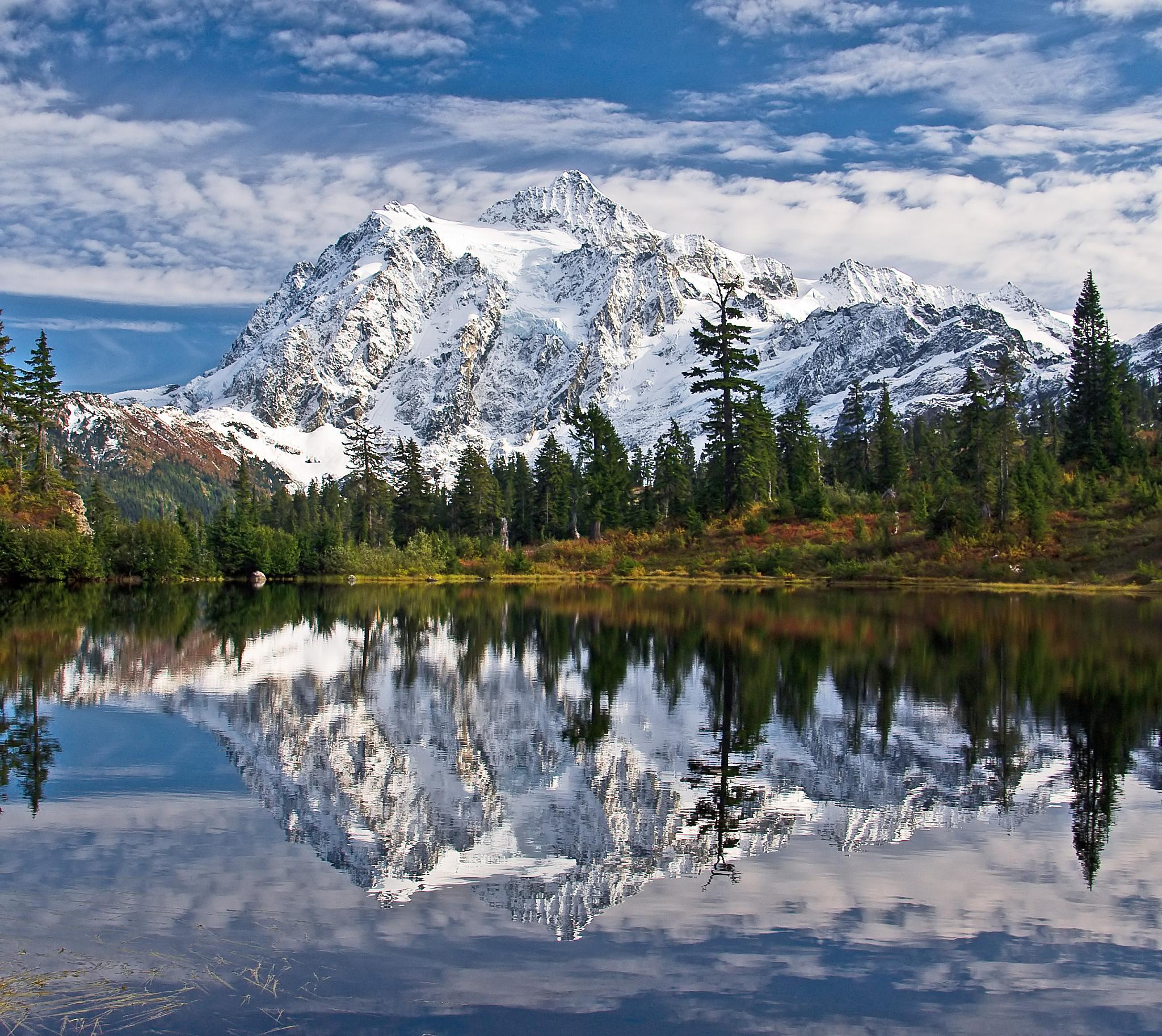 Mount Shuksan, Washington, United States. The location of the shot is easily accessed by auto all year long.